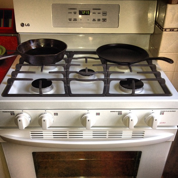 A stove powered by natural gas